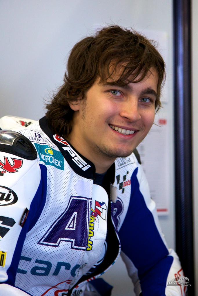 Karel Abraham in his garage at Silverstone MotoGP, 2011. Credit: Jared Earle/MotoRaceReports Jared (talk) 14:17, 24 June 2011 (UTC)